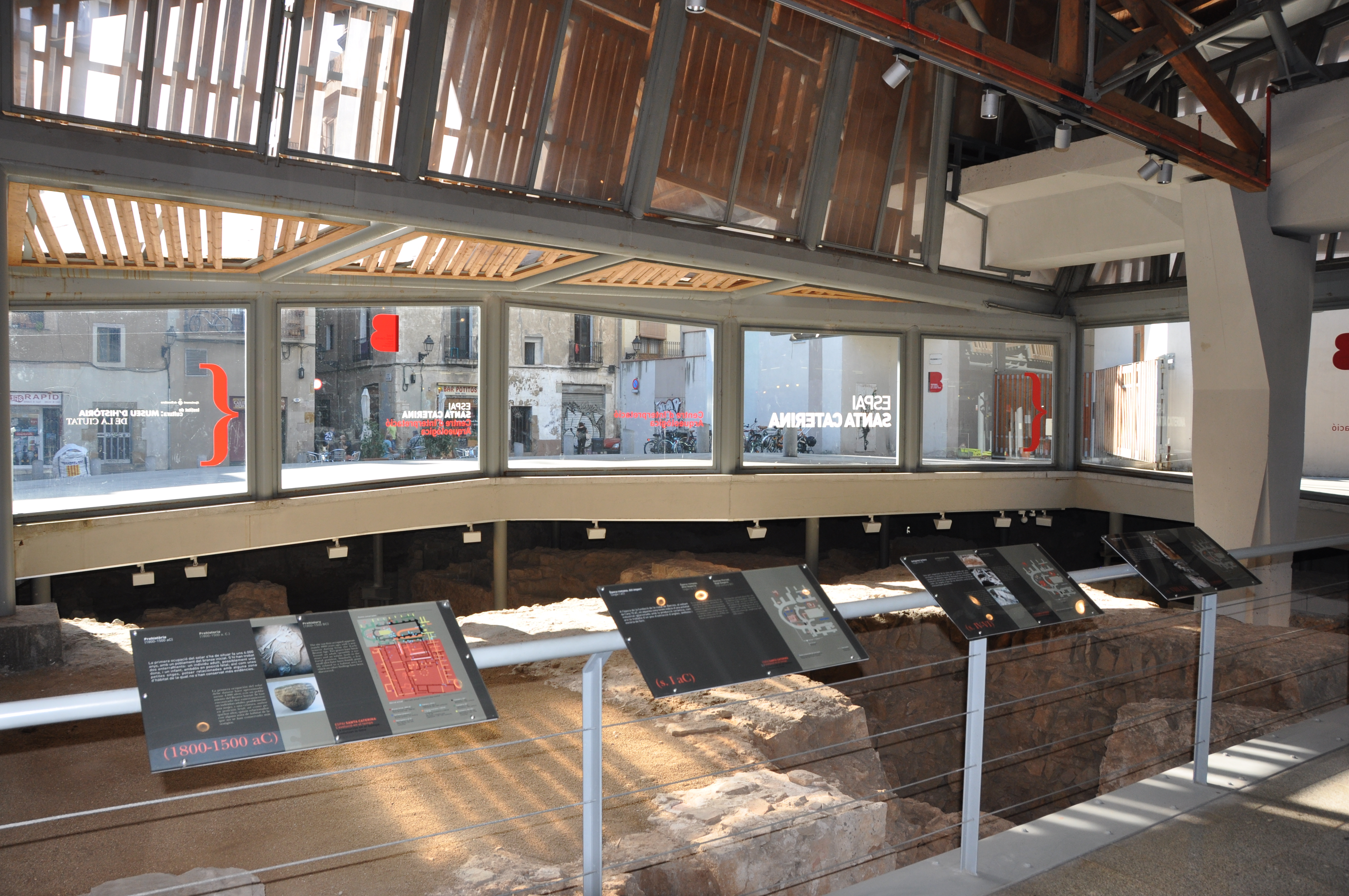 A MUHBA center in the santa Caterina market Barcelona displaying the archeological remains of santa caterina dominican monastery